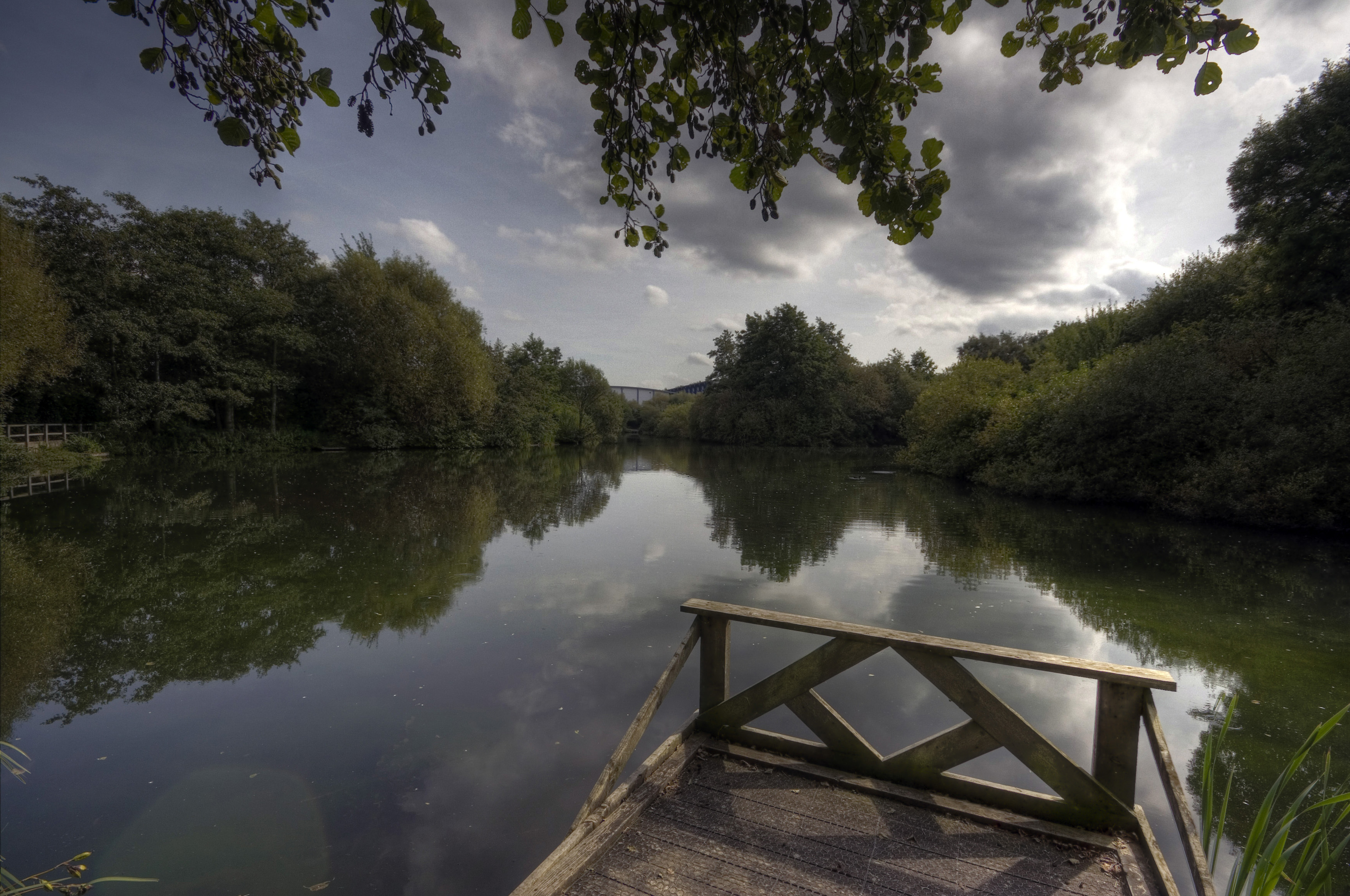 Trafford Ecology Park, Trafford Park, Greater Manchester.